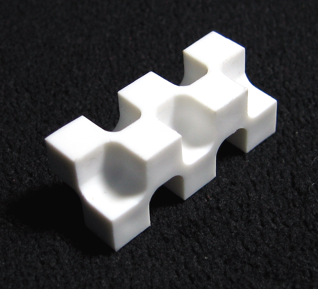 This photograph is Cadokeshi petit of Kokuyo.